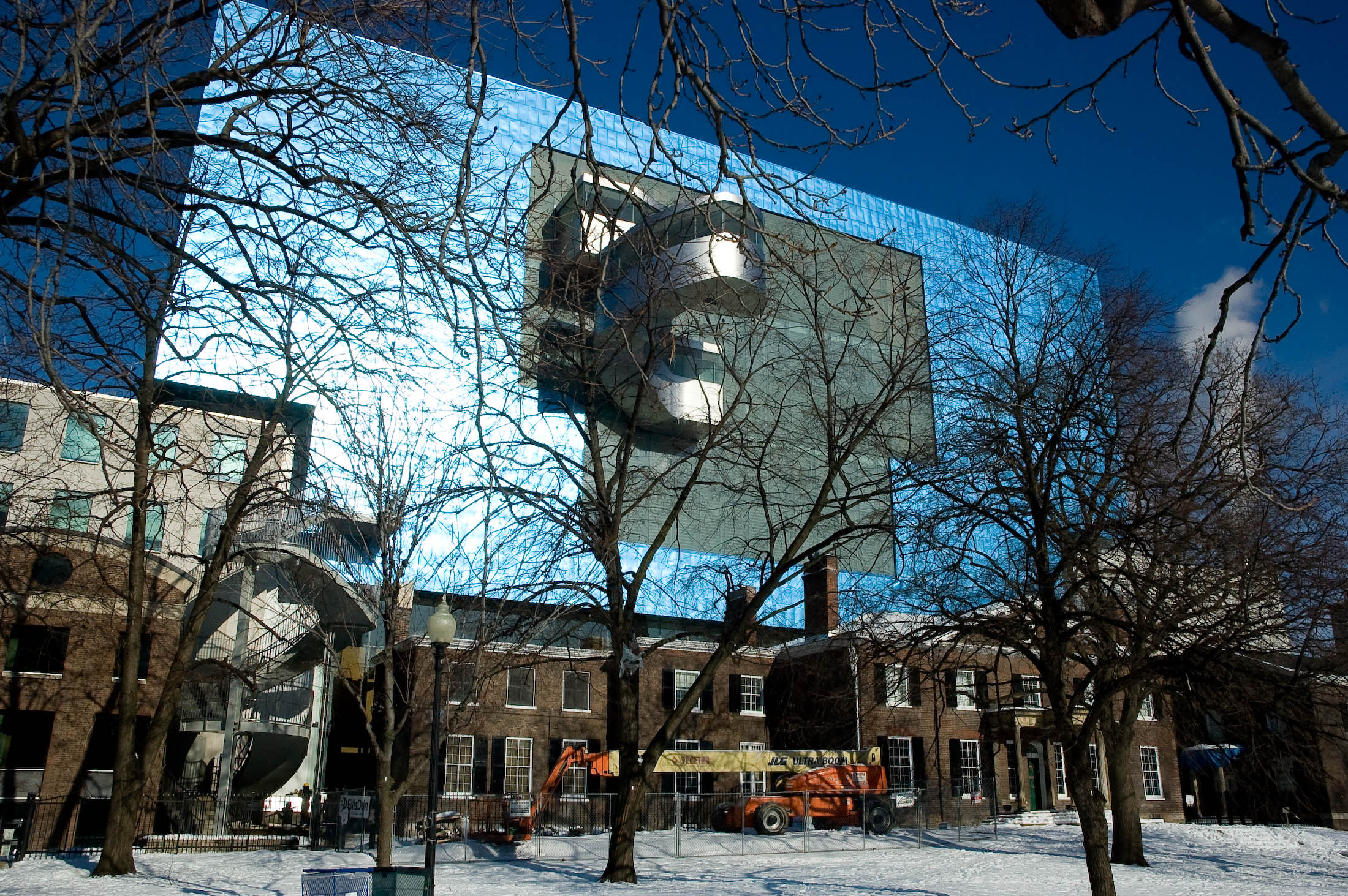 Back face of the newly reopened Art Gallery of Ontario (AGO), the Grange and Grange Park in Toronto.